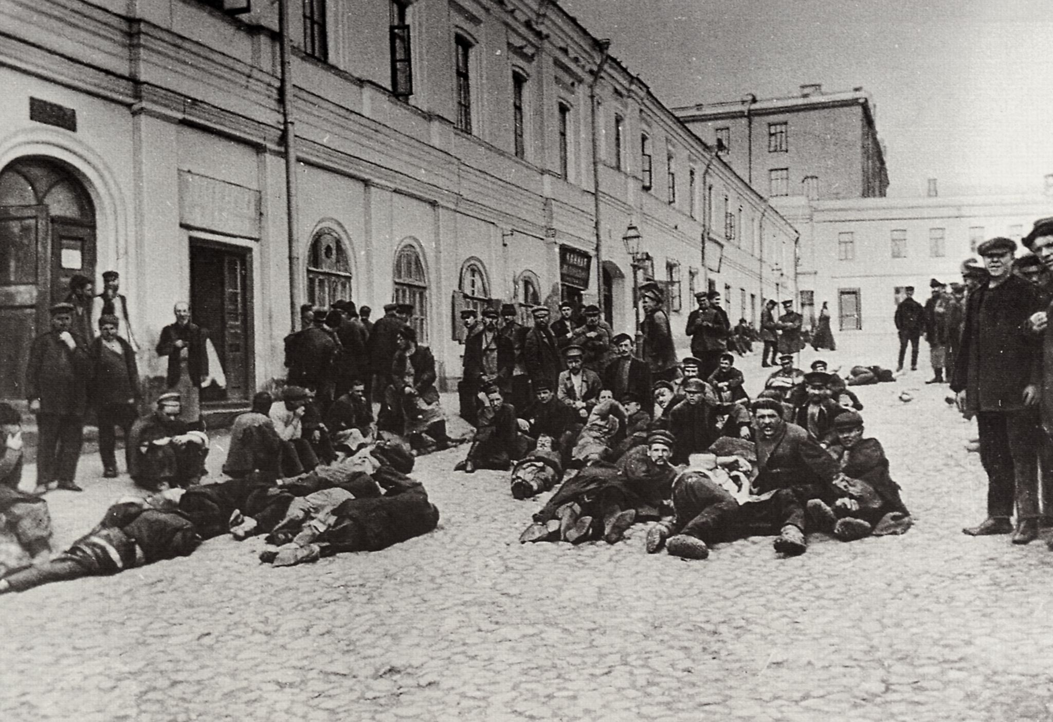 Dwellers of Khitrovskaya Square flophouses (the Yaroshenko 'hotel' shown), Moscow, 1904.